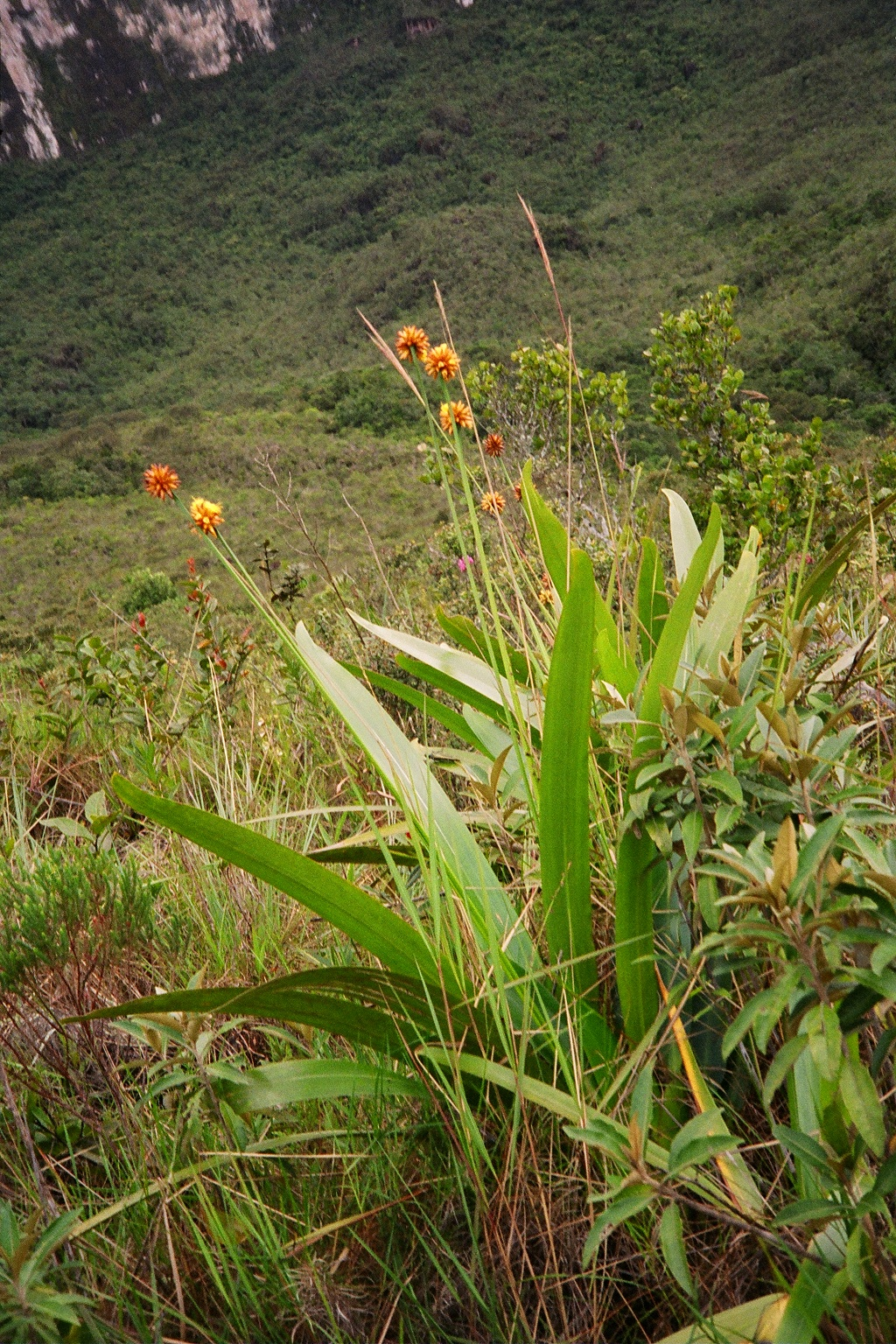 Stegolepis guianensis Habitus, at the bottom of Mount Roraima in the Gran Sabana in Venezuela